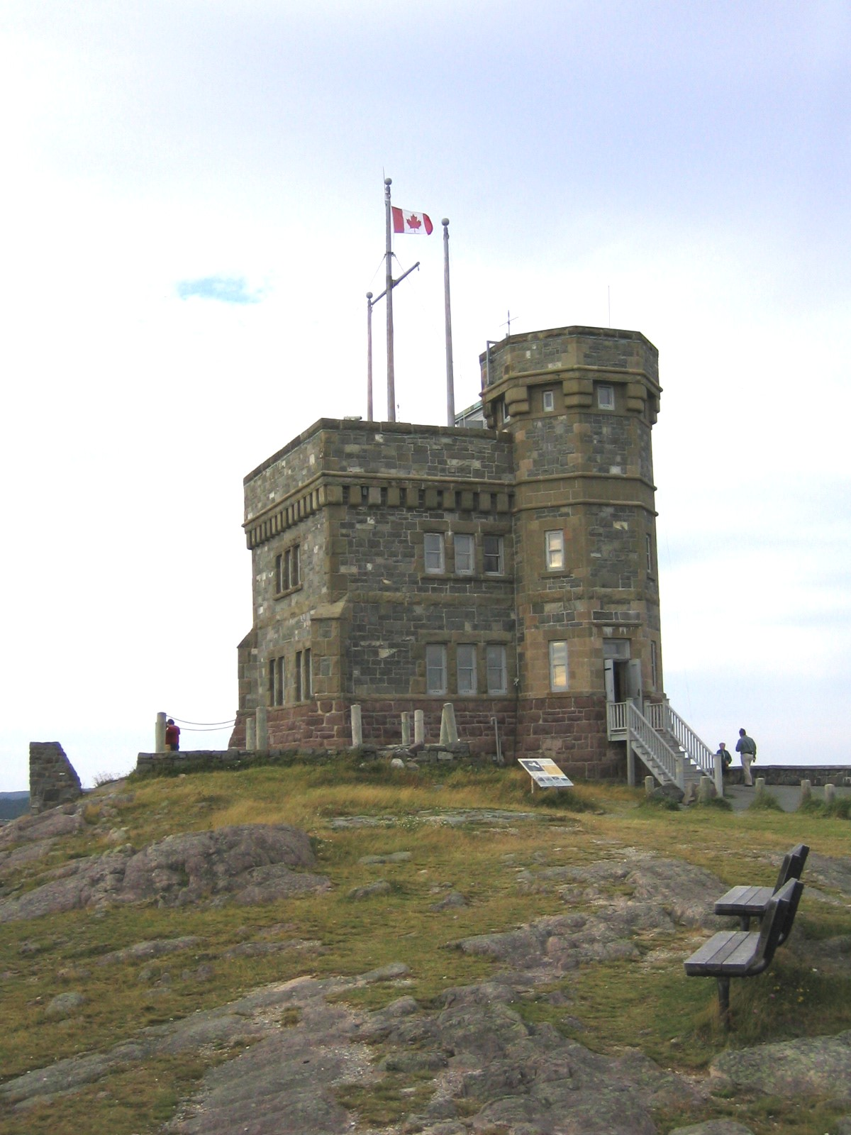 Cabot Tower, St. John’s, Newfoundland